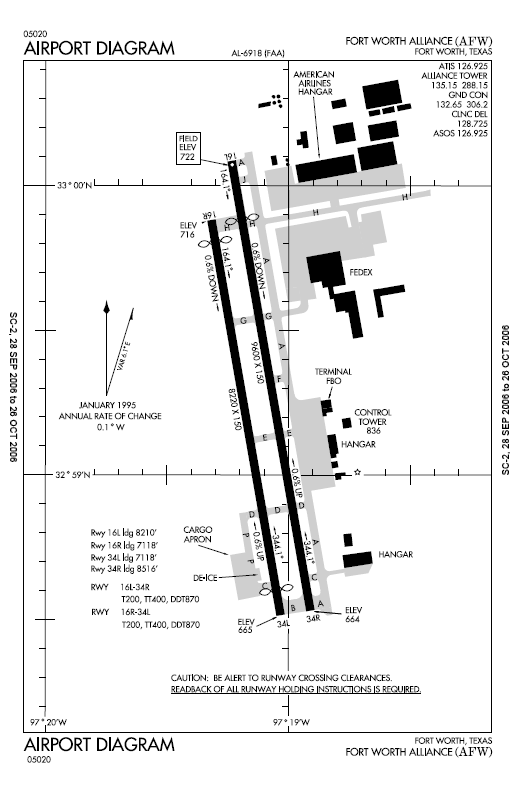 FAA airport diagram for Fort Worth Alliance Airport (AFW) in Fort Worth, Texas, United States.